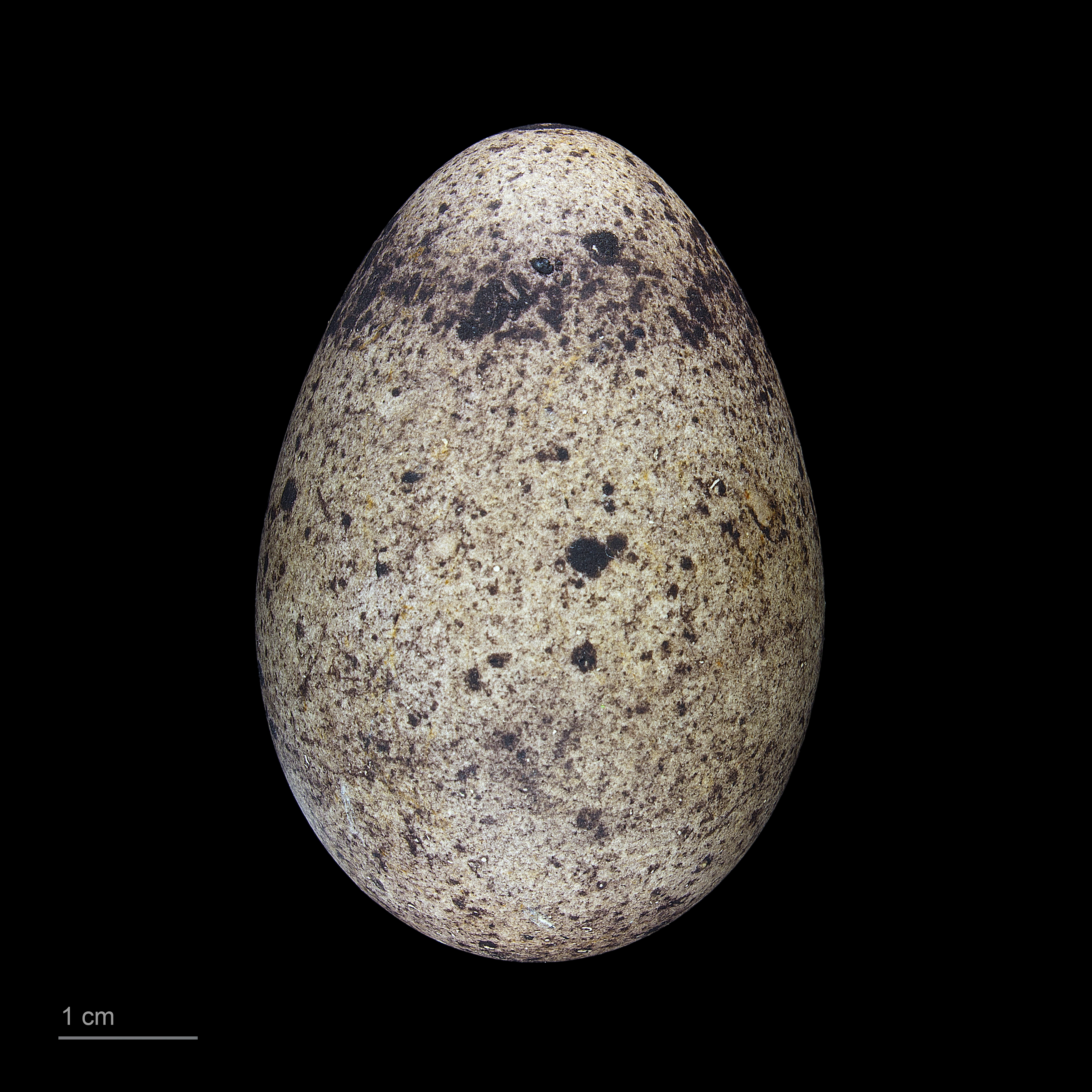 Egg of white-tailed tropicbird Collection of Jacques Perrin de Brichambaut.